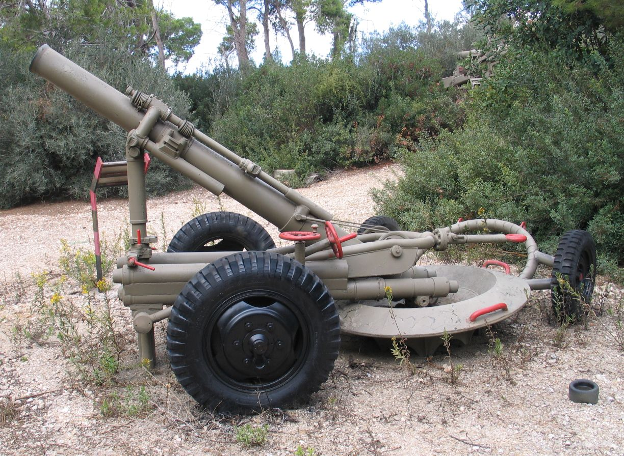 Description: 160 mm mortar (apparently Soltam M-66) in Beyt ha-Totchan, Zichron Yaakov, Israel. 2005. Source: Photo by me, User:Bukvoed.